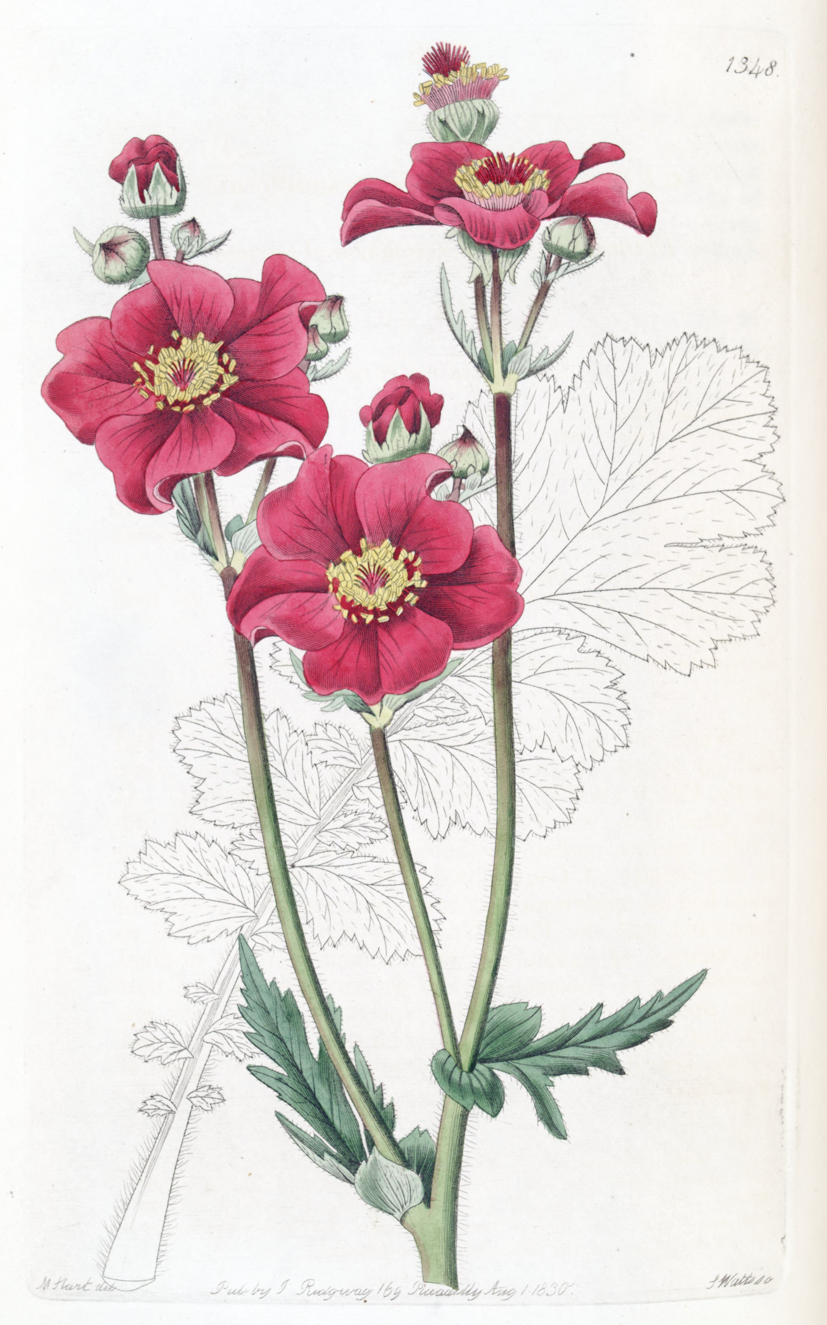 Geum quellyon as Geum chilense var. grandiflorum